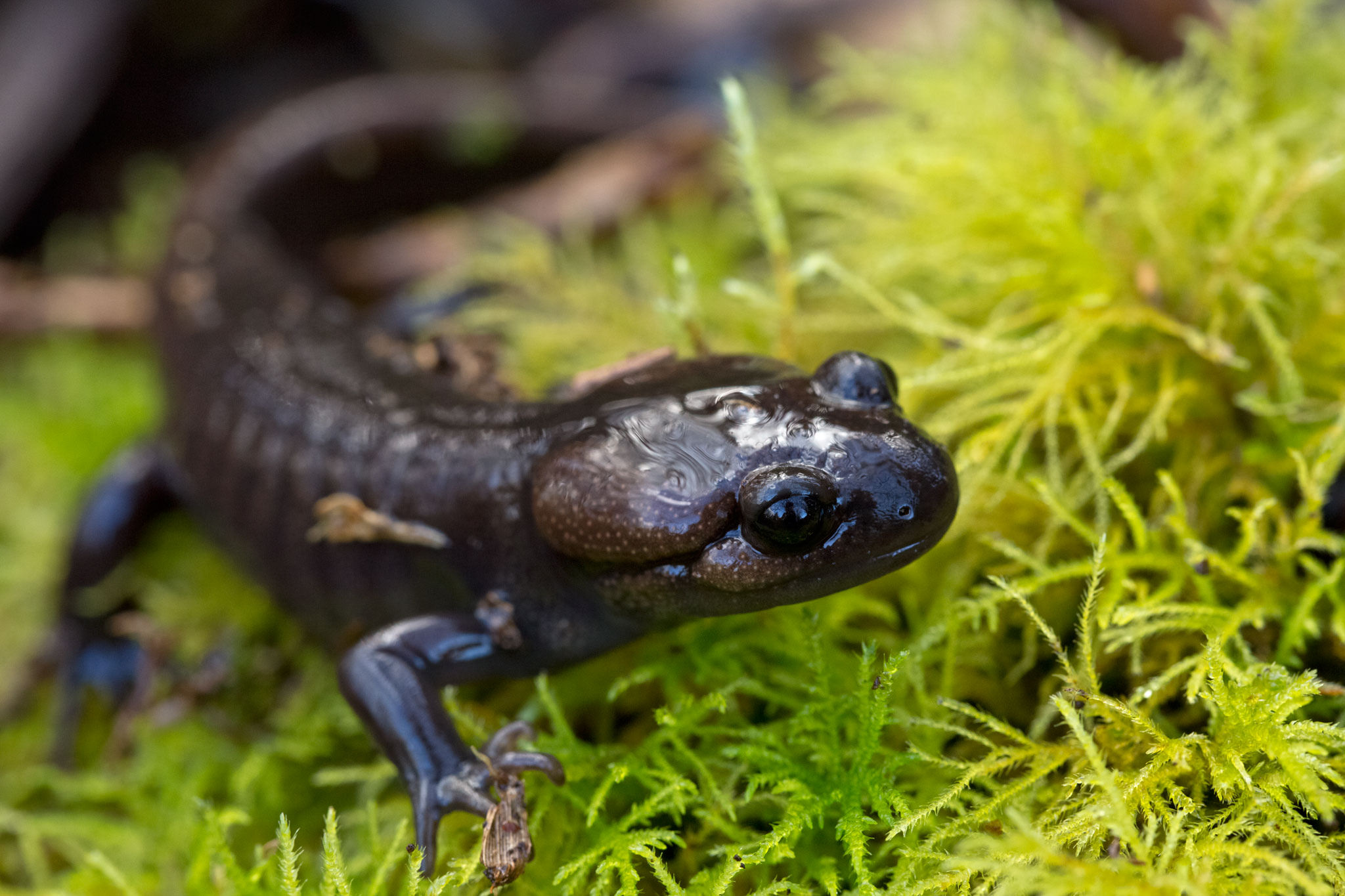 Northwestern salamander (Ambystoma gracile)